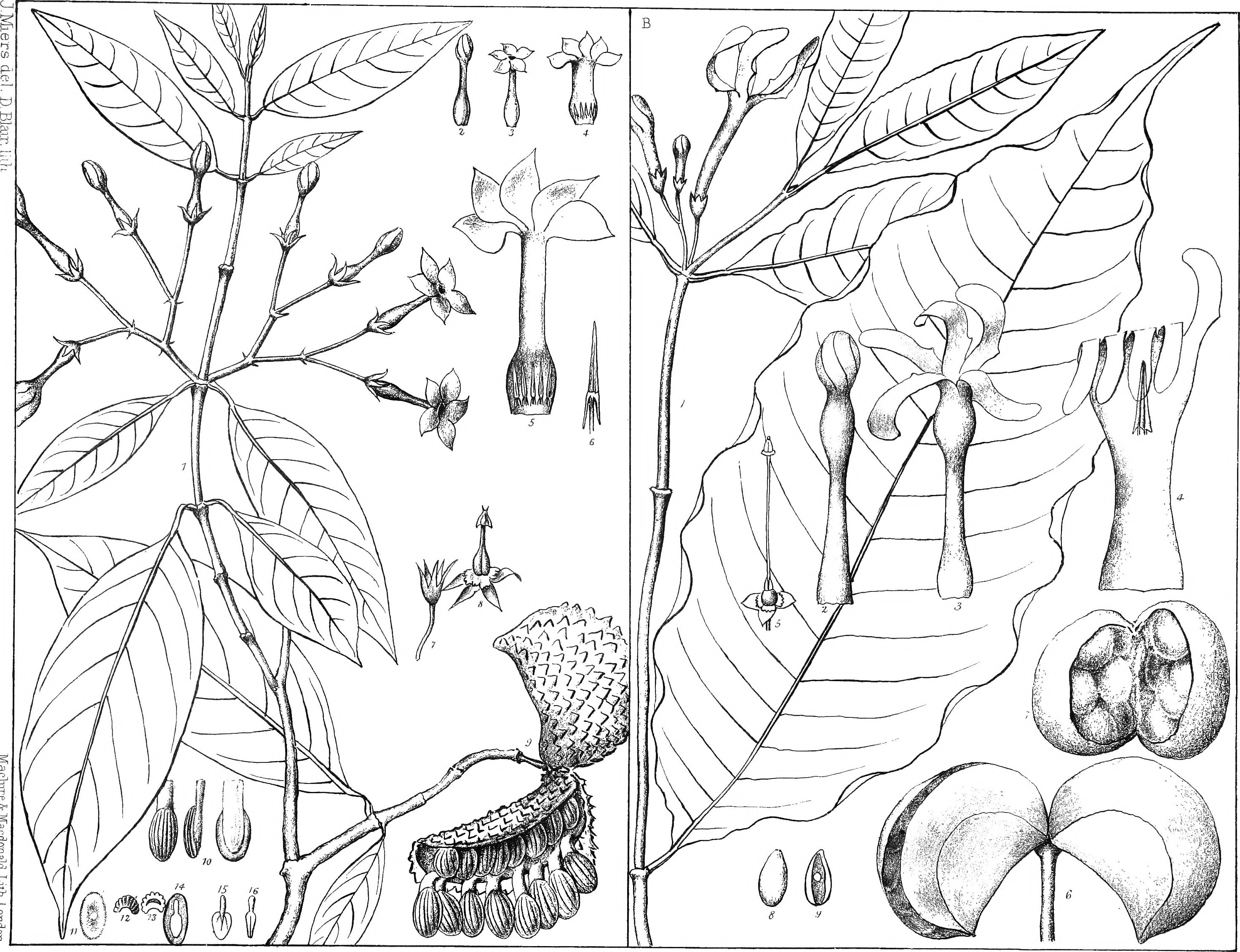 Title: On the Apocynaceae of South America, with some preliminary remarks on the whole family .. Year: 1878 (1870s) Authors: Miers, John, 1789-1879 Subjects: Apocynaceae; Botany Publisher: London, Williams and Norgate Text Appearing Before Image: Hate B. Text Appearing After Image: J.Mers del. D.Blair, liil Majkire MTacdanald.Lith. London.